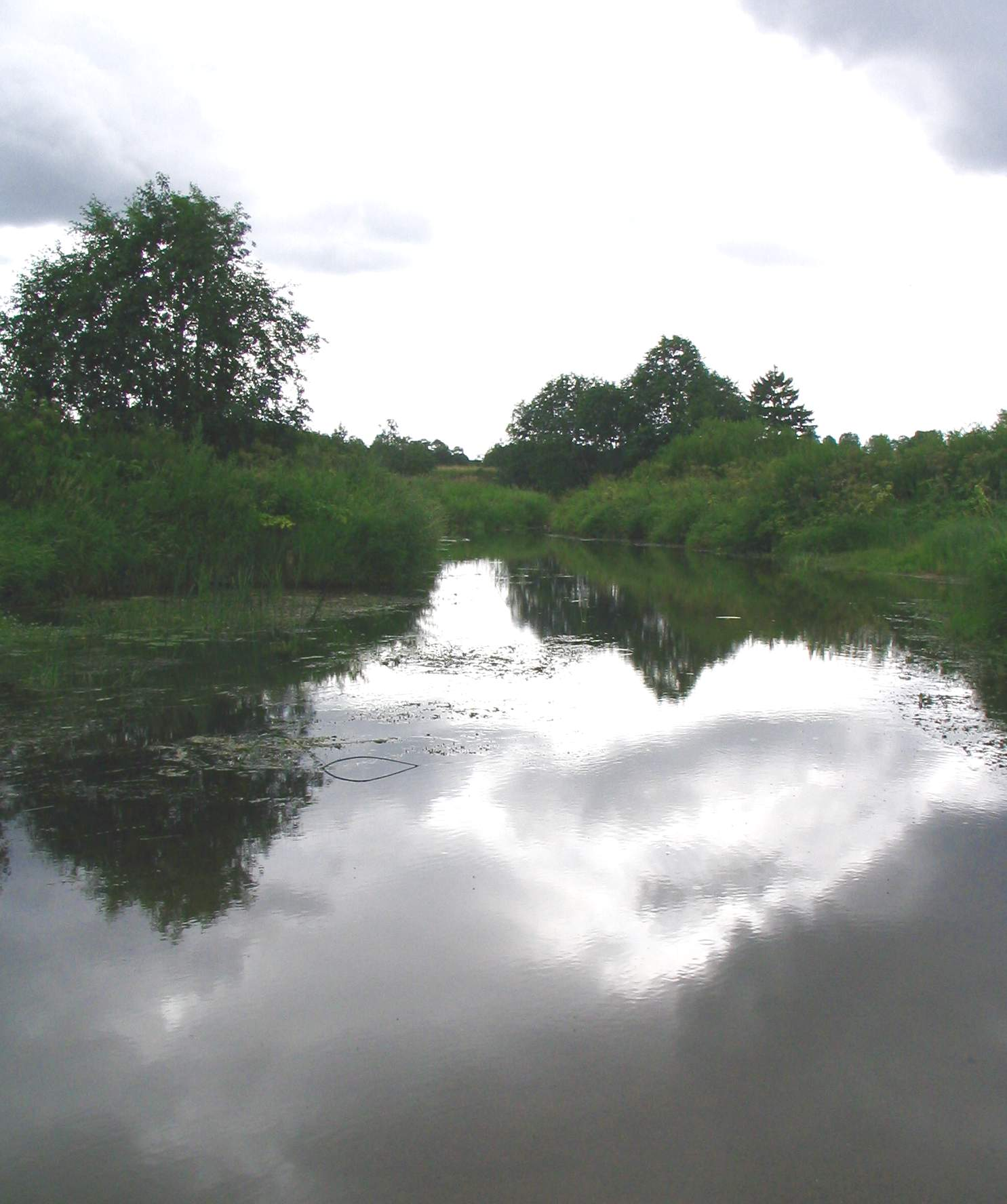 Own photo. Kashinka River (Russia)